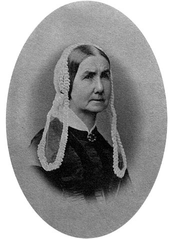 Anna Matilda Whistler, mother of James McNeill Whistler, sitter for his Arrangement in Grey and Black No.1 (also known as Whistler's Mother).